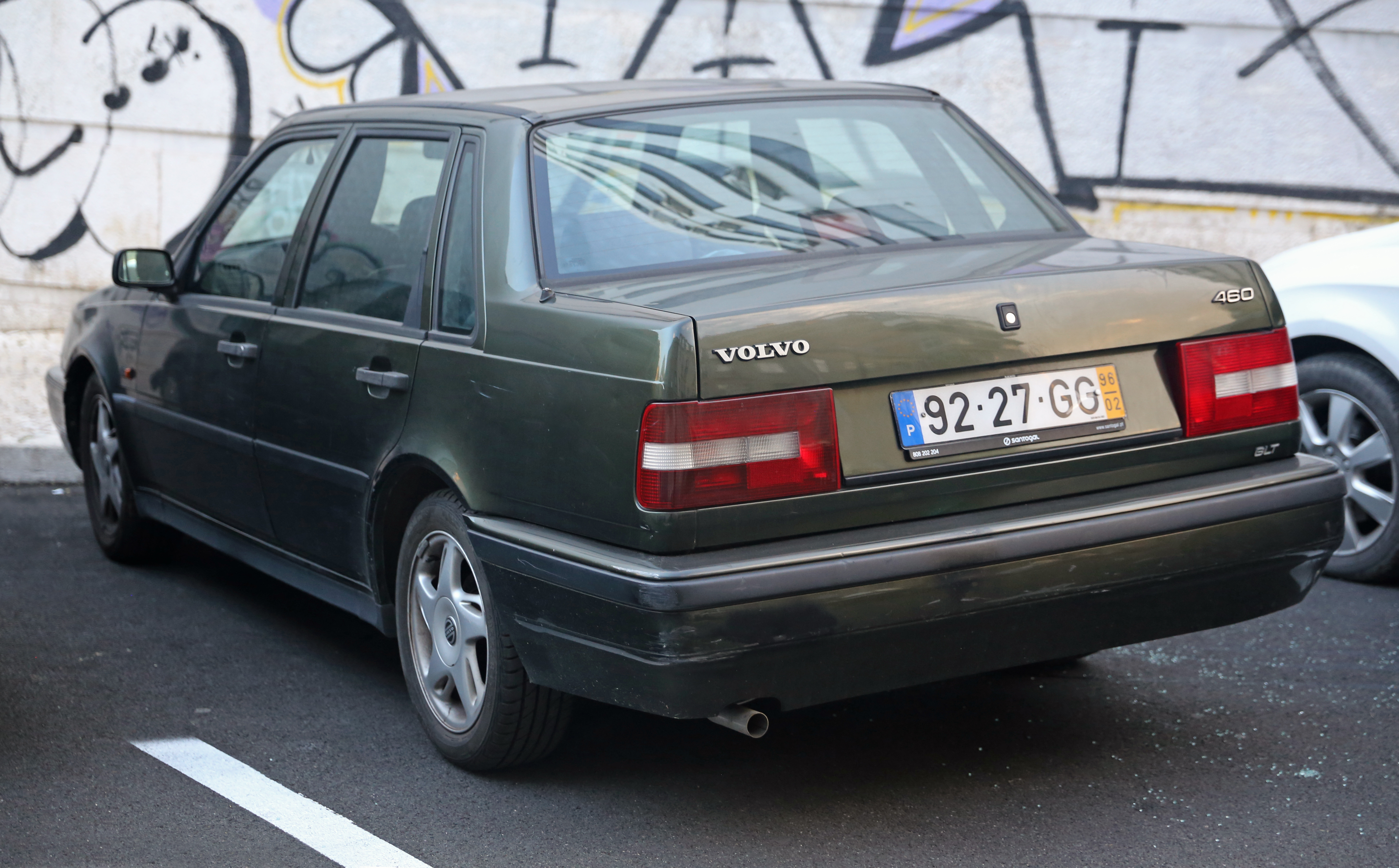 A 1996 Volvo 460 GLT seen in Lisbon, Portugal.